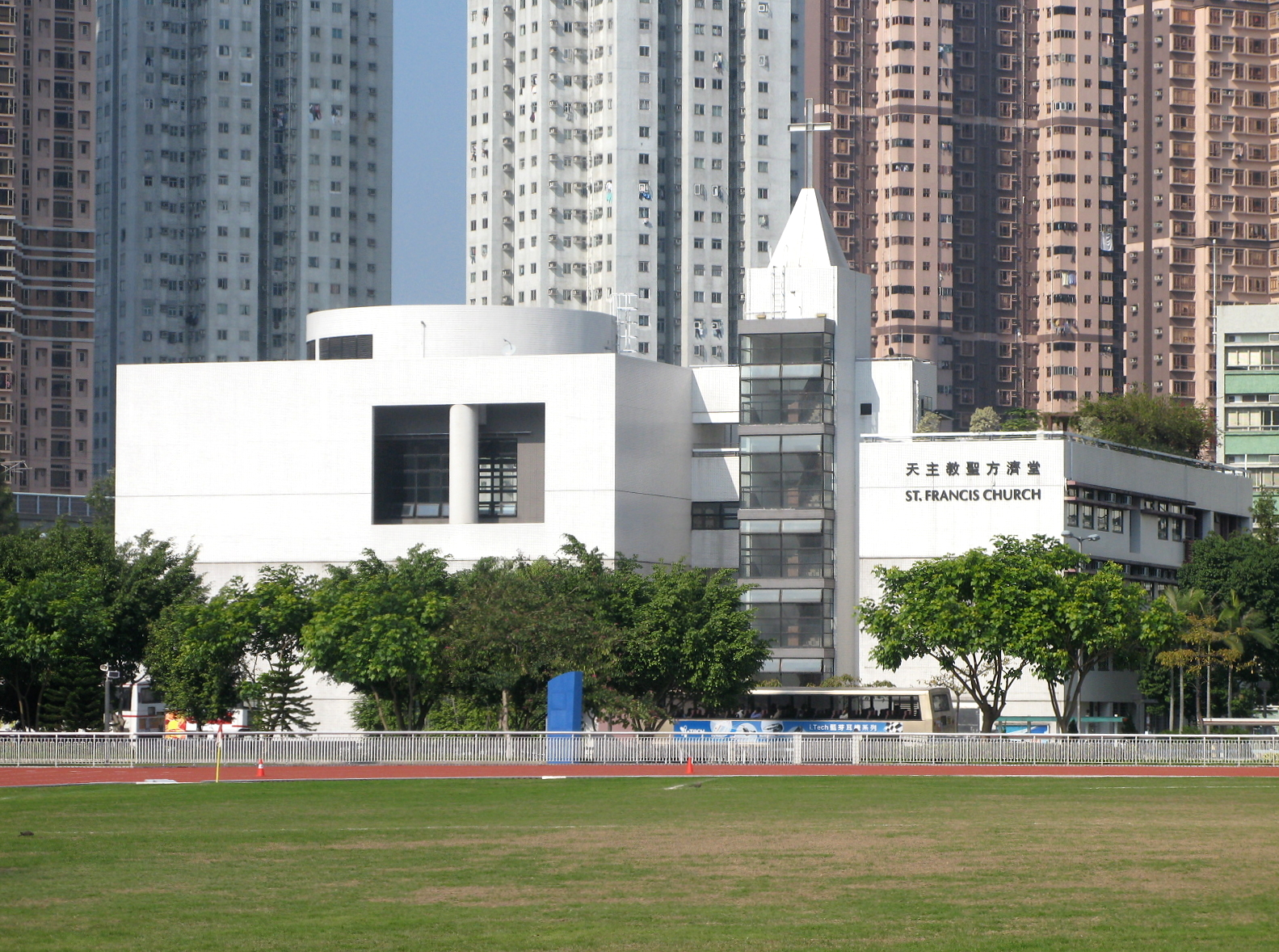 St. Francis' Church